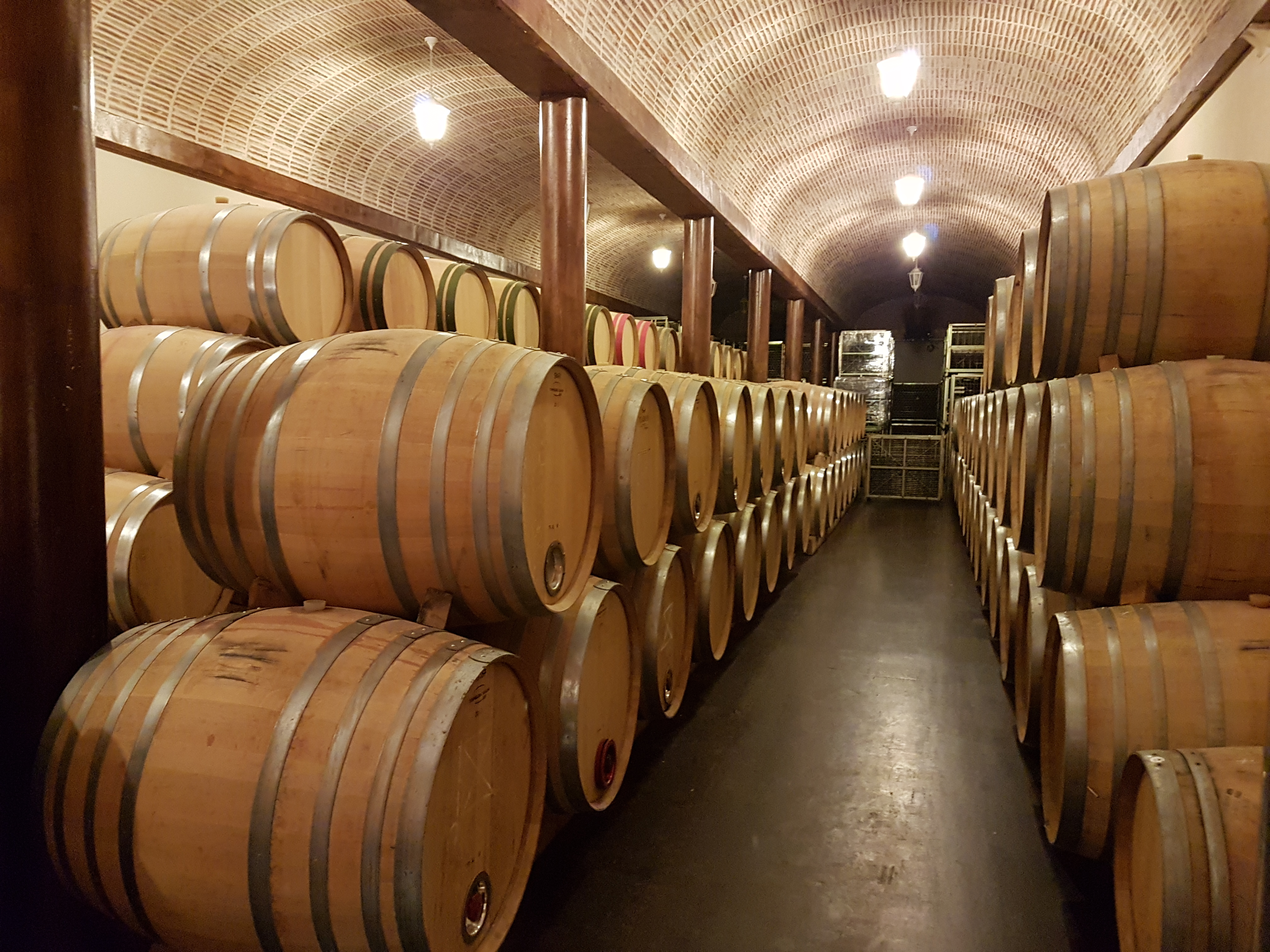 Wine Barrels in Bodegas Casajus, Ribera del Duero. Quintana del Pidio, Burgos, Spain